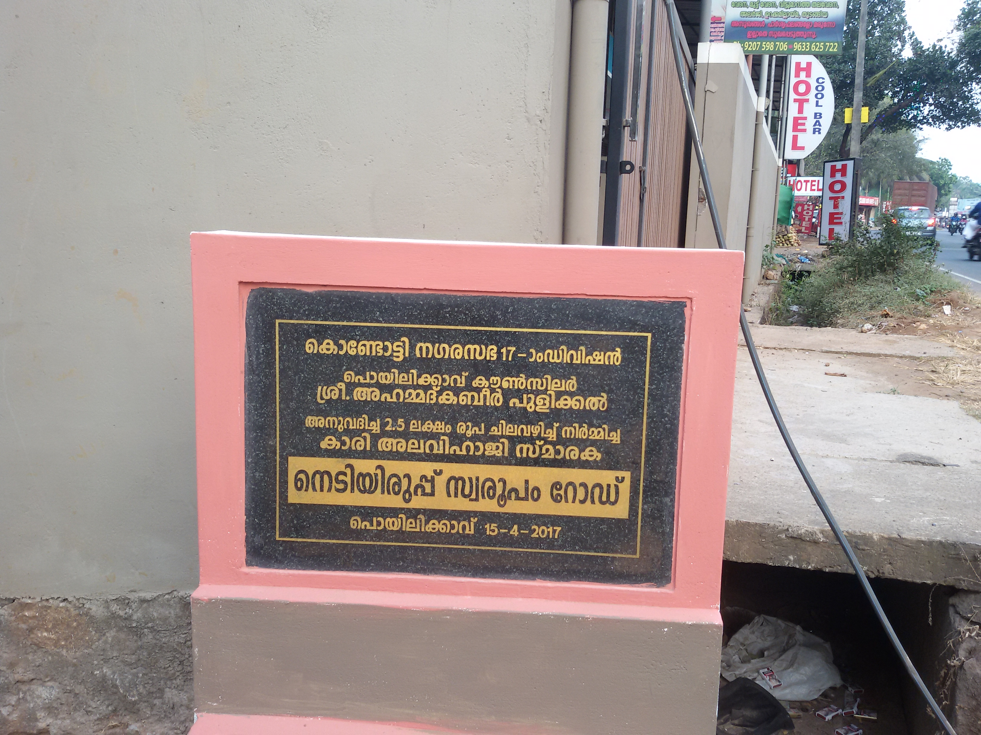 Renovated Nediyiruppu Swaroopam Road